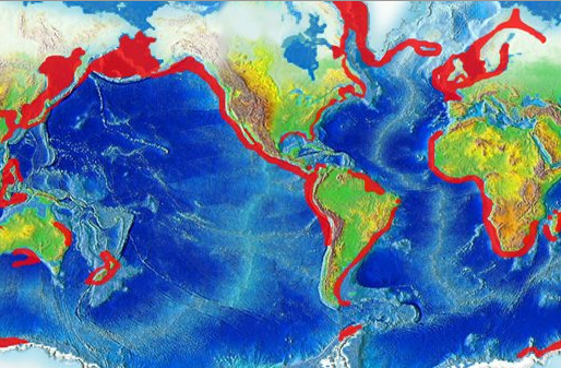 Global map highlighting areas of upwelling